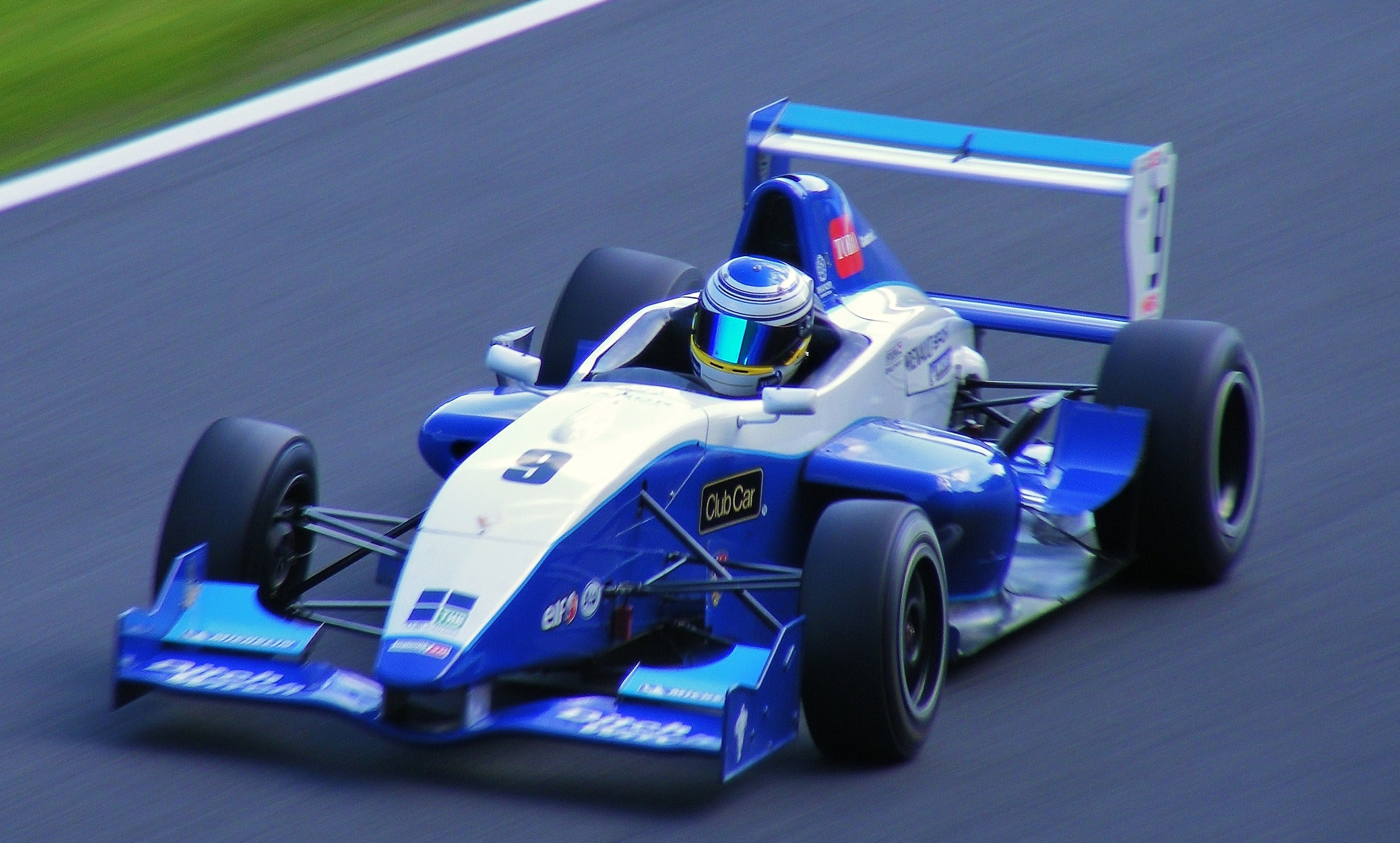 Thomas Hylkema speeds up Clay Hill at Oulton Park during the second qualifying session.